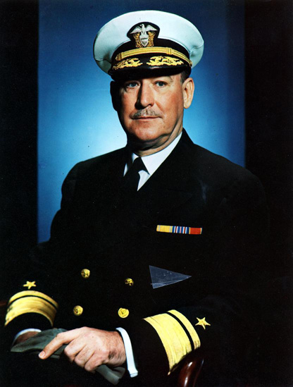 Portrait of Admiral Sidney W. Souers.